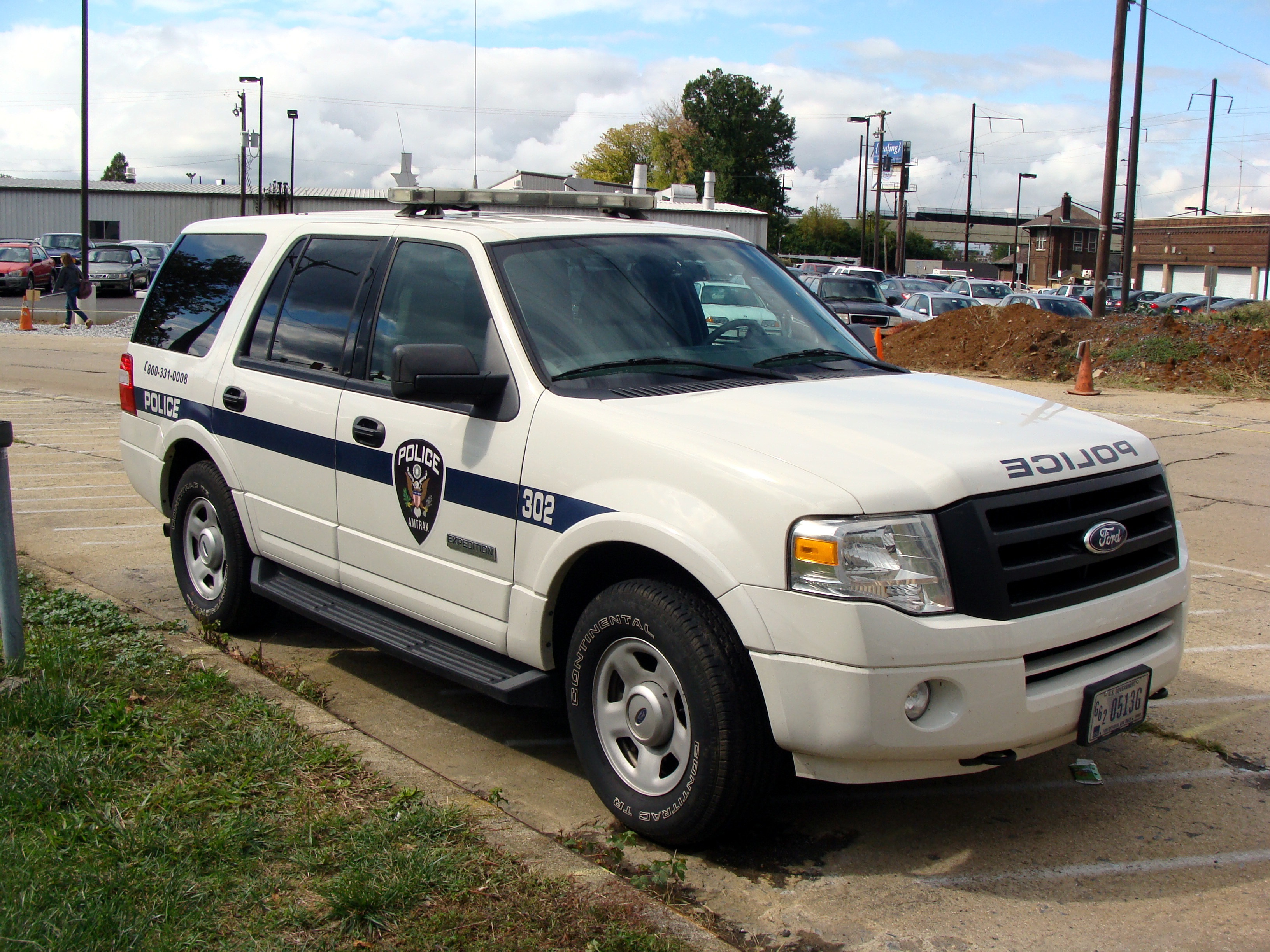 An Amtrak Police SUV at the Lancaster Amtrak station in Lancaster, Pennsylvania.